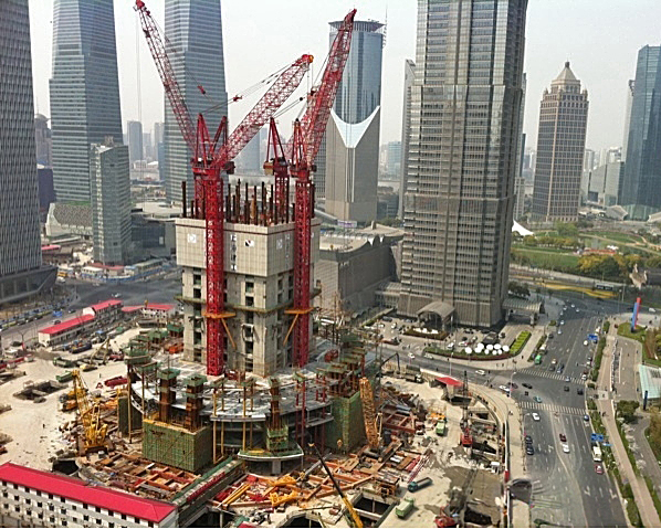 Construction of the Shanghai Tower in Shanghai, China, on April 12, 2011.